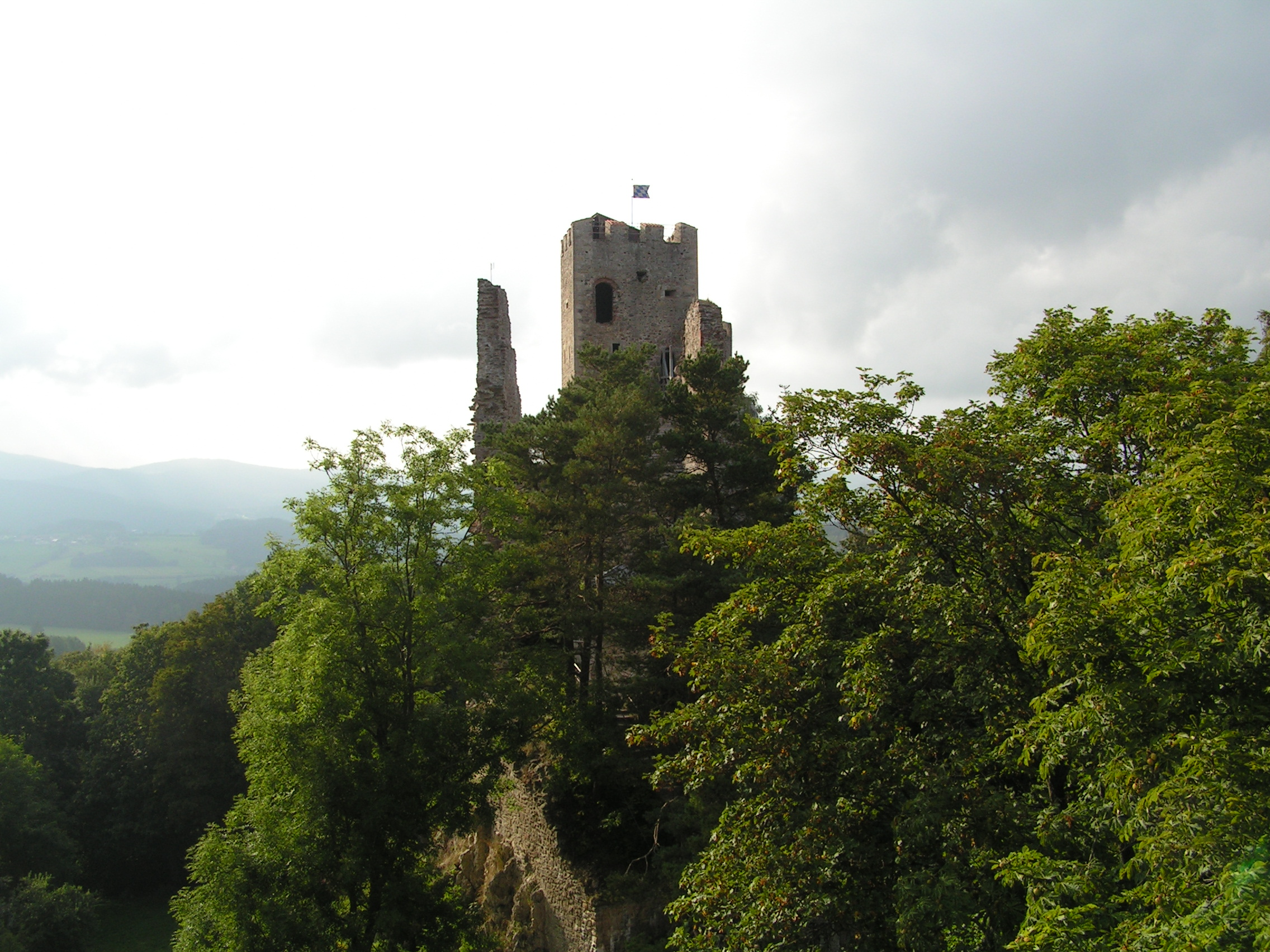 the keep of the castle ruin weißenstein